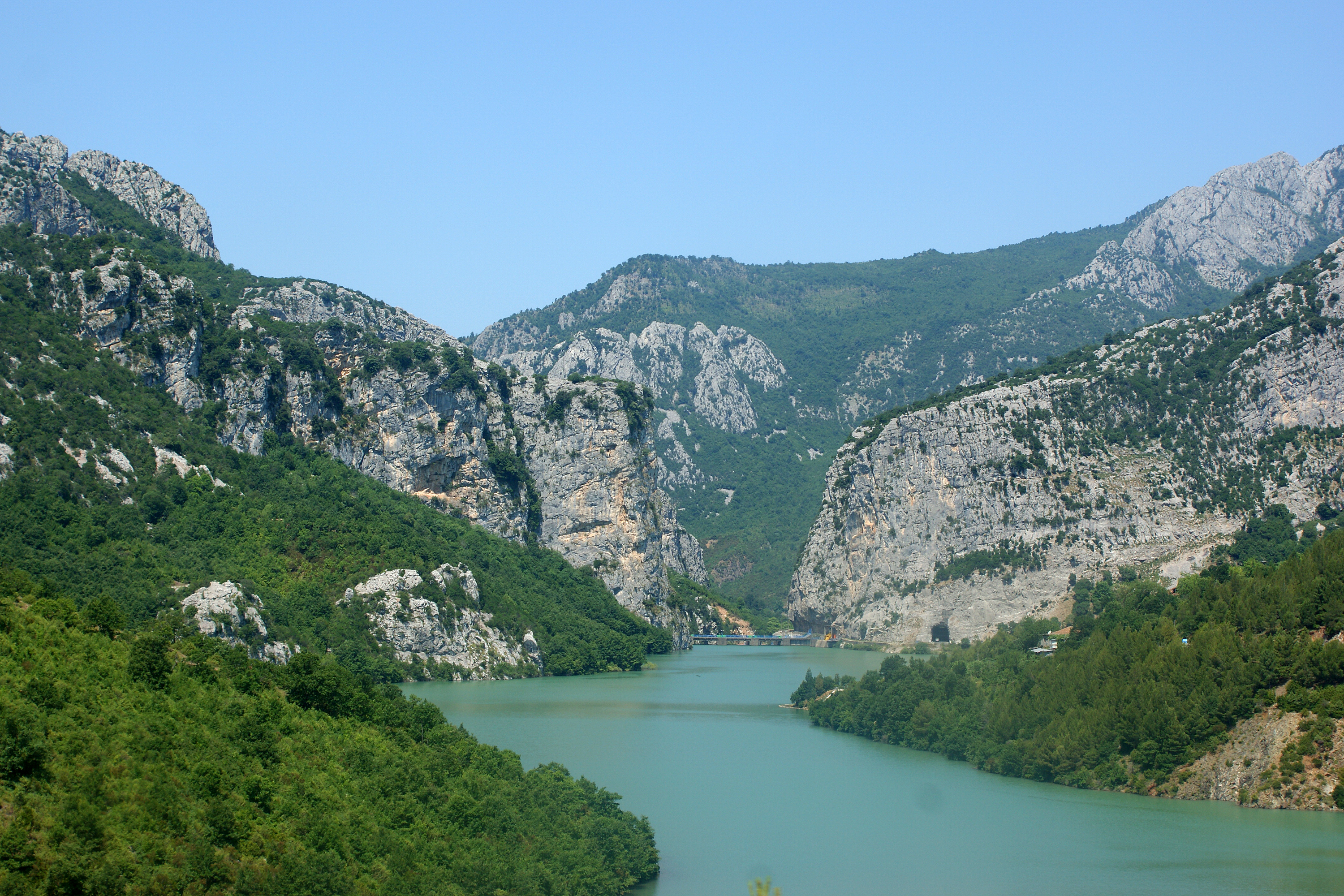 Lake Shkopet, Mat, Albania